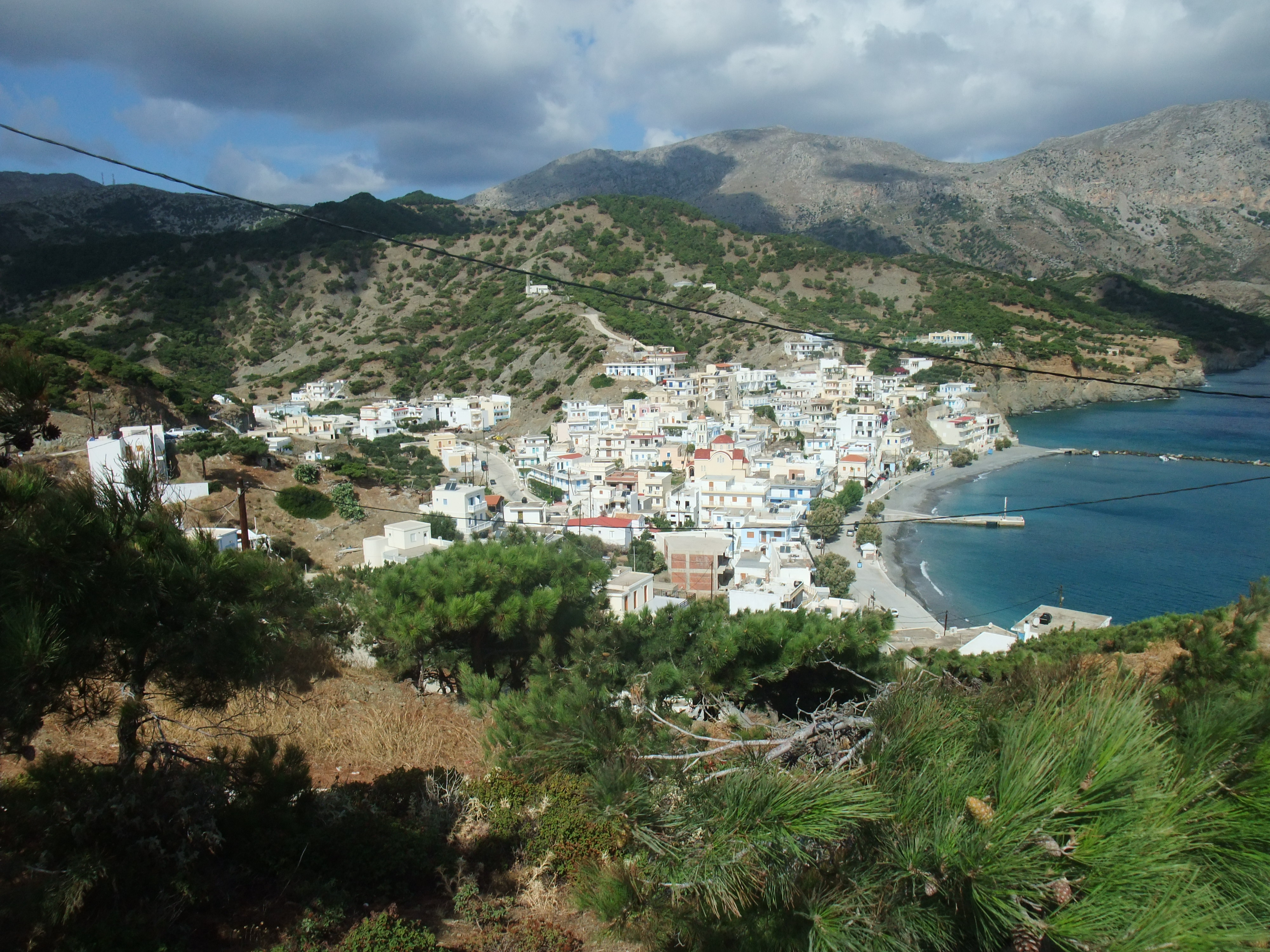 Diafáni (village view), Karpathos, Greek Dodecanese islands